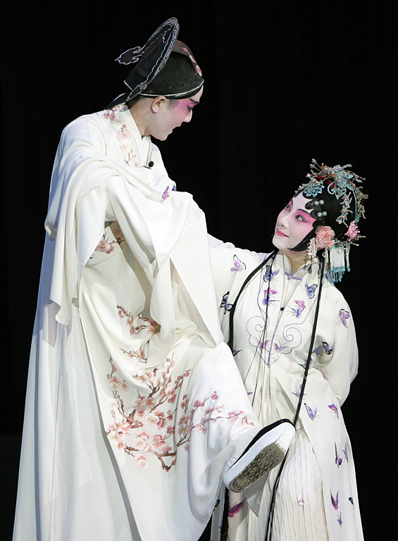 Kunqu performance at the Peking University